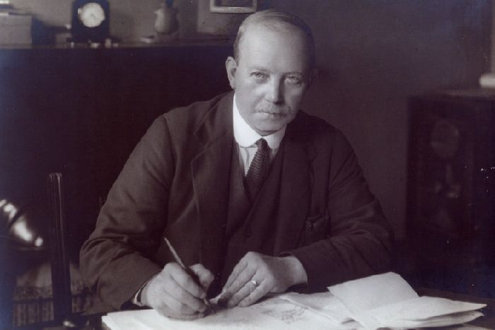 British architect Archibald Leitch, from Scotland, in 1924